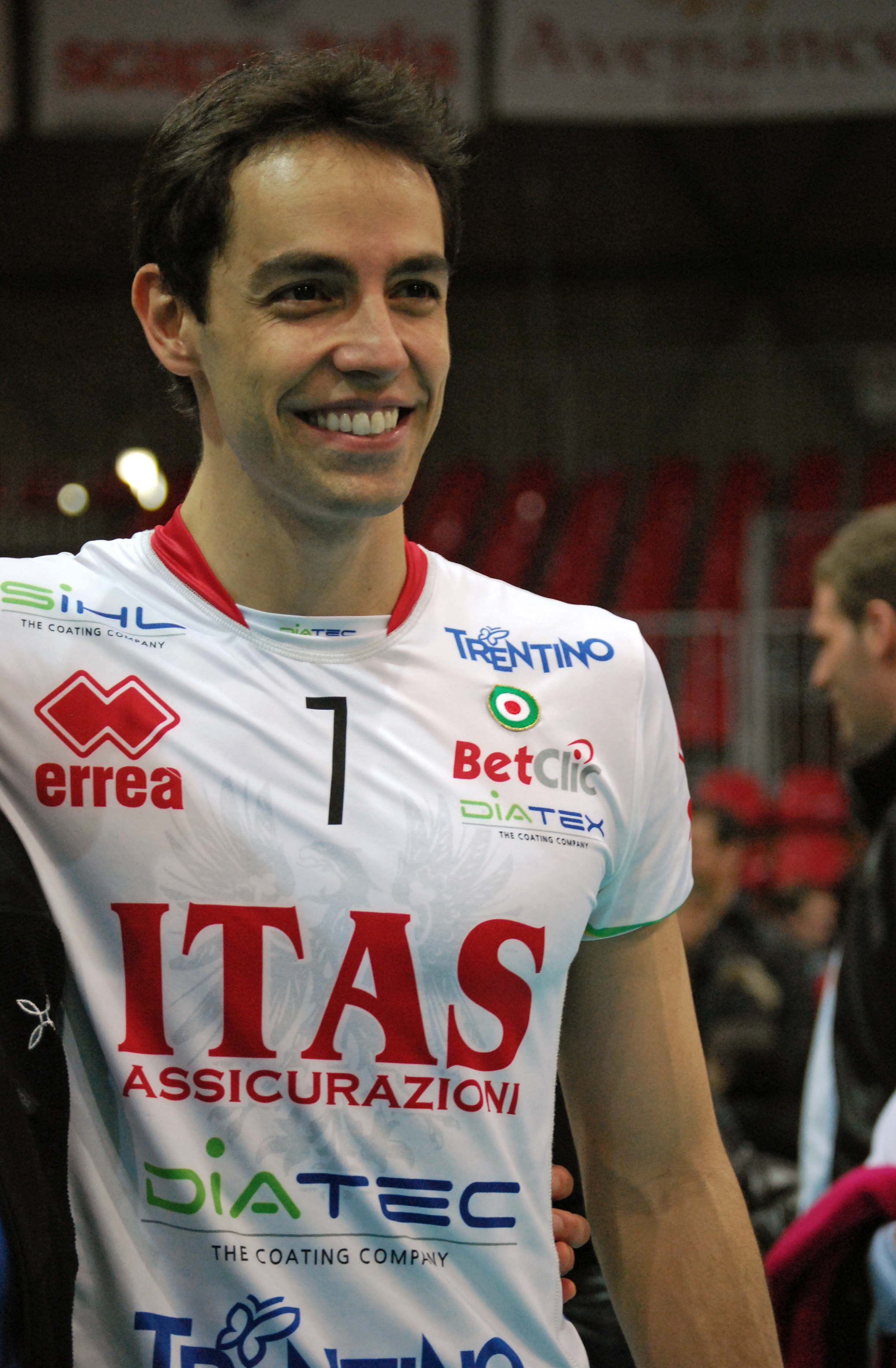 I took this photo during a volleyball match in Piacenza